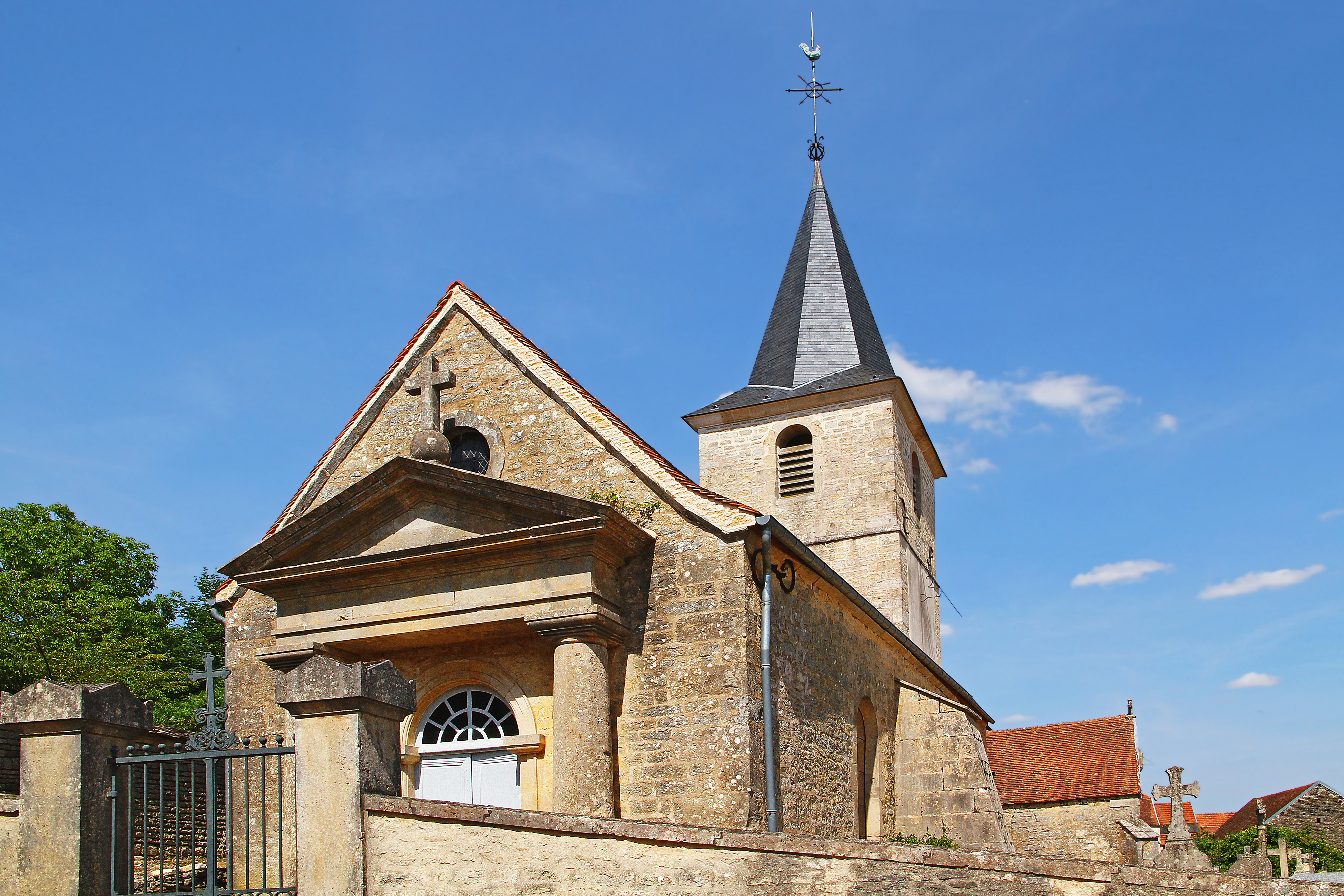 Church of the Nativity of Saint Mary and its close in Meulson